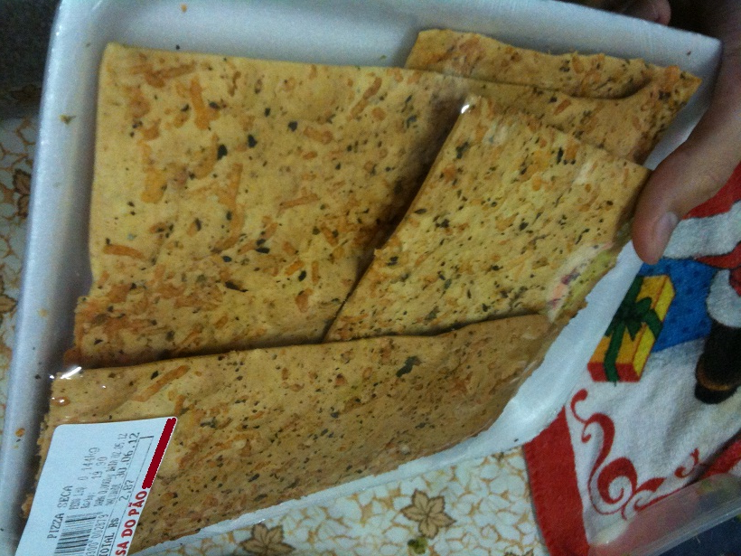 Pizza Seca from a common bakery